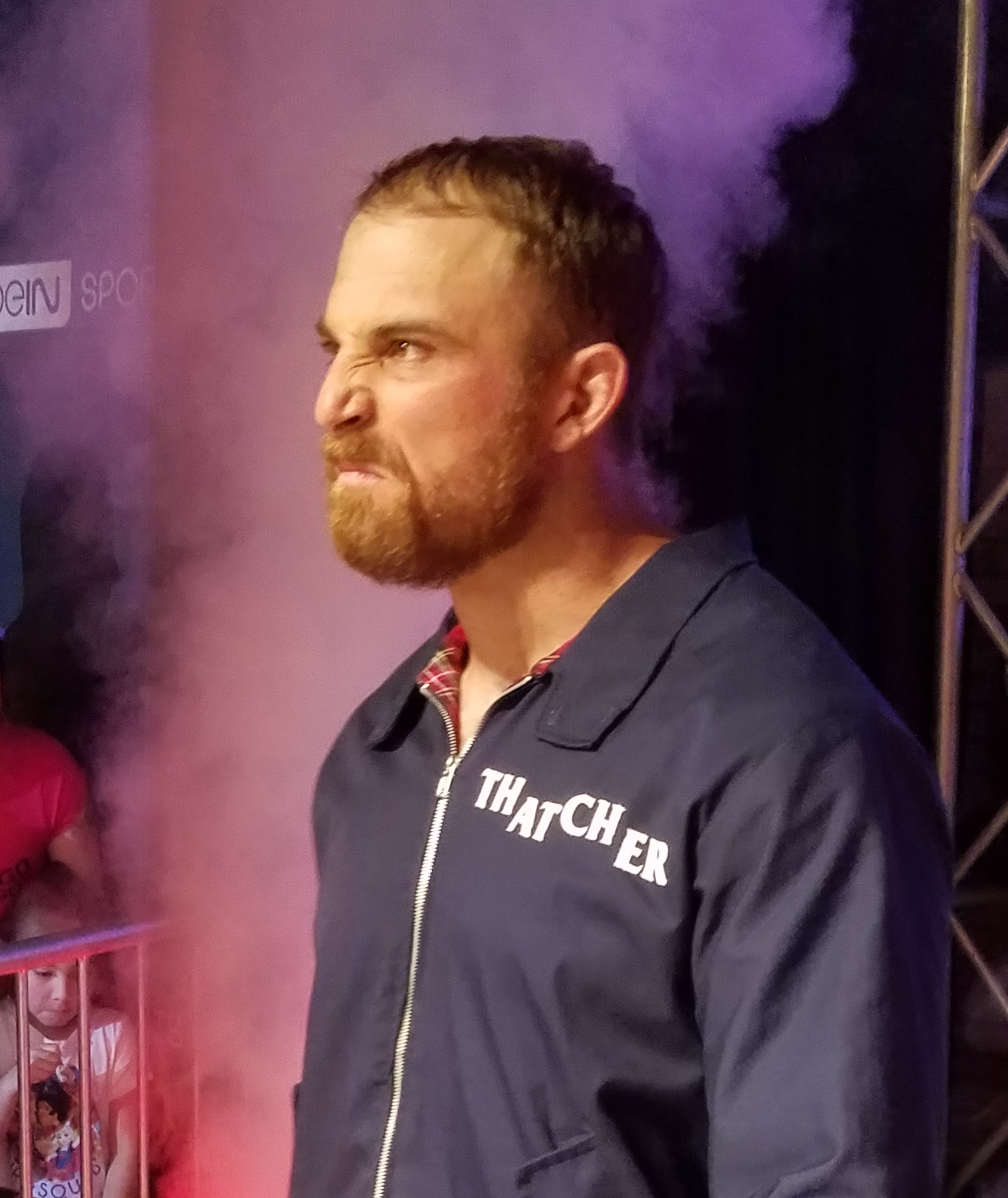 Timothy Thatcher coming to the ring for his MLW Saturday Night Superfight match vs. Tom Lawlor on November 2, 2019 at Cicero Stadium in Cicero, Illinois.